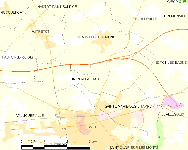 Map of French municipality Baons-le-Comte